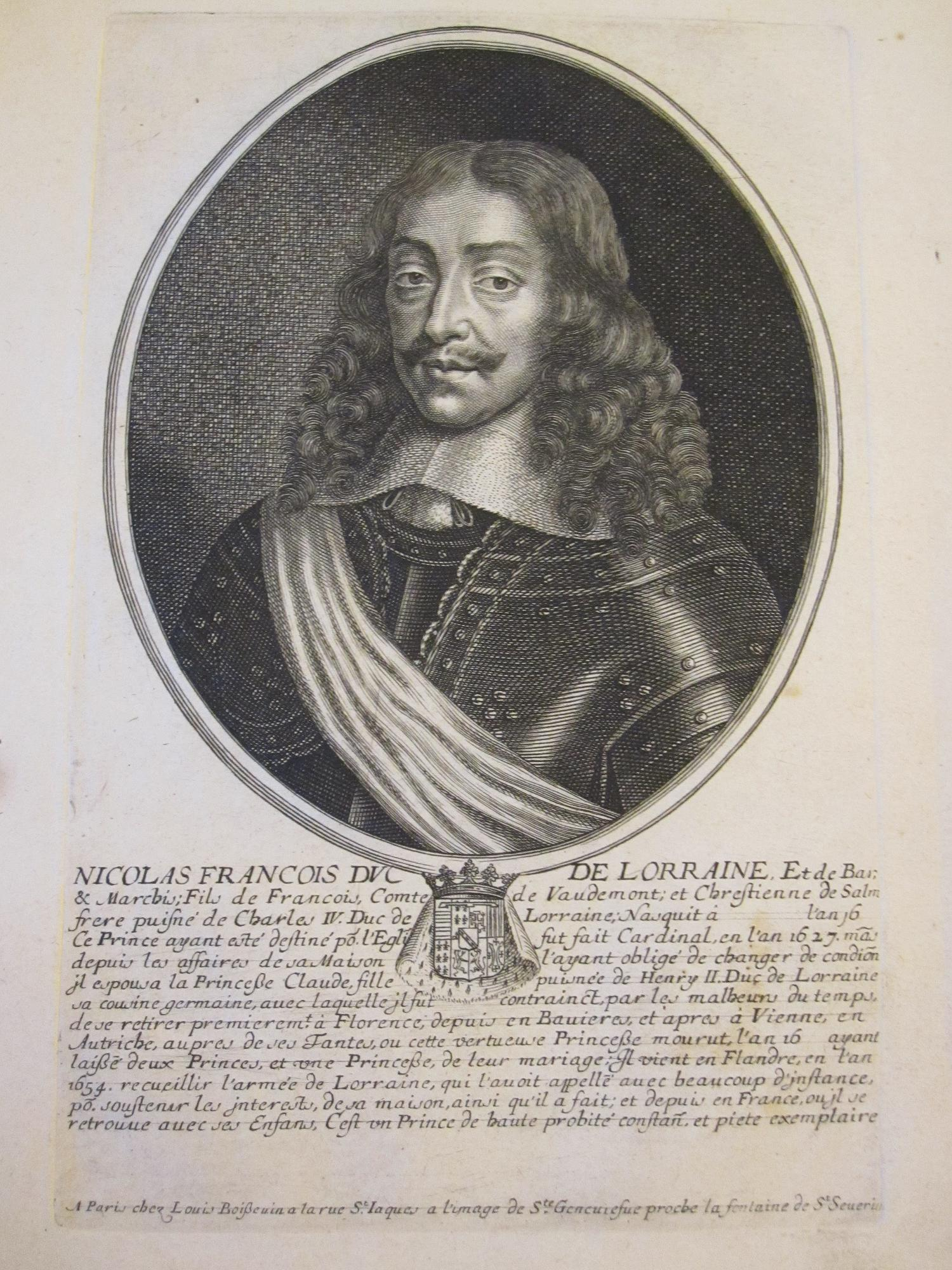 Nicholas Francis (1609-1670), duke of Lorraine (1634)